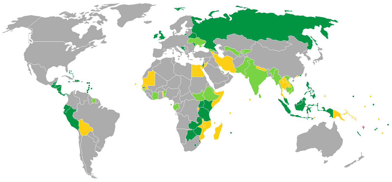 Visa requirements for Vanuatuan citizens